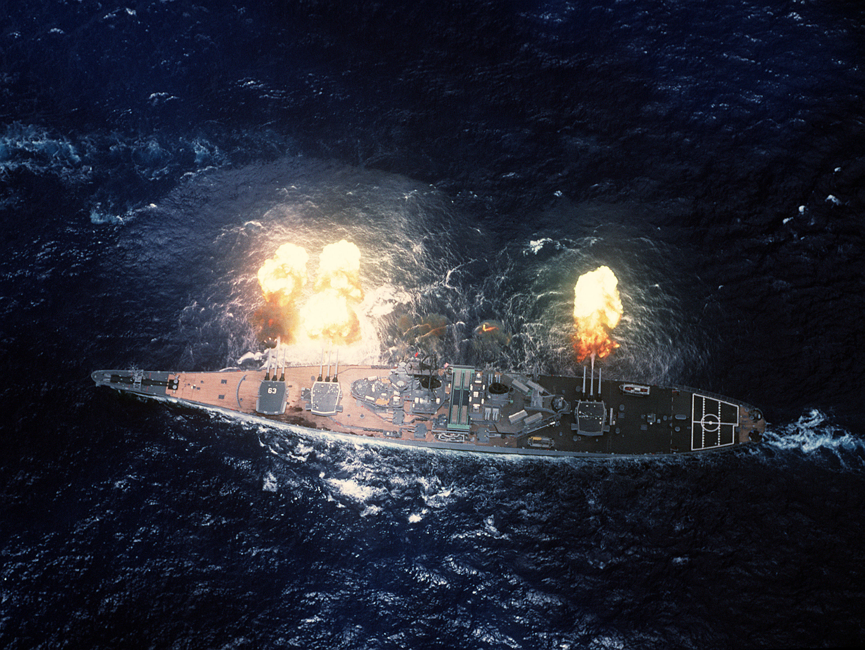 ID: DN-ST-89-05374 Service Depicted: Navy Command Shown: N0824 Operation / Series: RIMPAC `88 An overhead view of the battleship USS MISSOURI (BB-63) firing broadside from its Mark 7 16-inch/50-caliber guns during a firepower demonstration. The MISSOURI and the ships of its battle group are participating in the multinational Exercise RIMPAC '88.